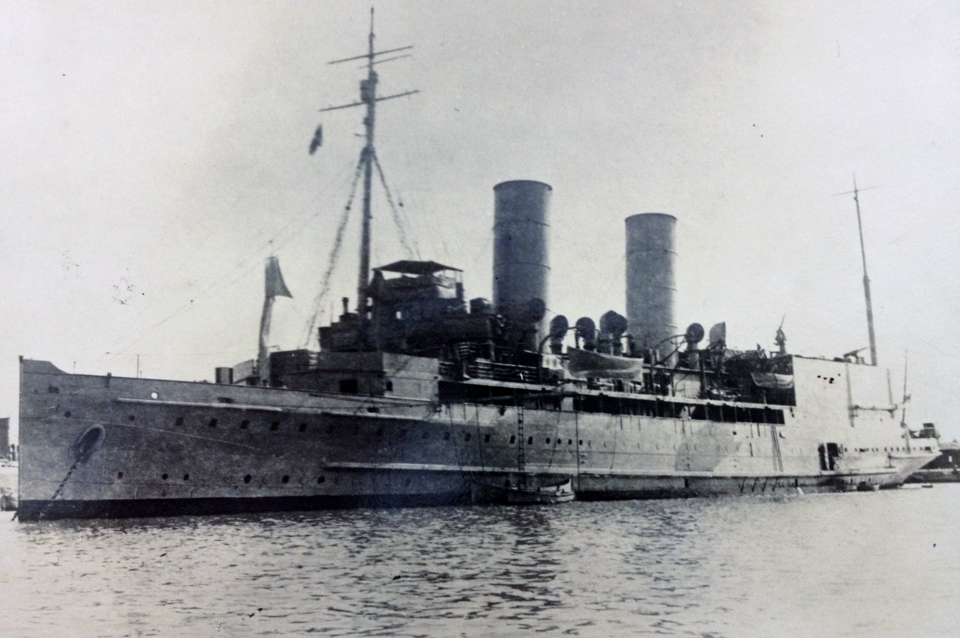 Ben-my-Chree following conversion to Seaplane Carrier.